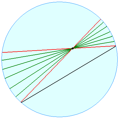 Parallels in hyperbolic geometry (Klein model): red = asimptotic parallels, green = hyperparallels(ultarparallels)